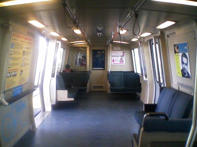 A Demonstration Car interior with blue vinyl flooring. This car has a designated Bike Space in the area normally reserved for passengers in wheelchairs; the front-facing seat on the left-hand side of the car has been removed to accommodate passengers with bicycles, in turn, the aisle-facing seat on the right-hand side near the operator's cab has been removed to accommodate passengers in wheelchairs. This car also has hand straps, unlike the other BART train cars.